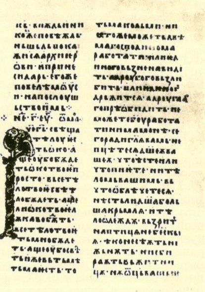 Cyrillic script from XIII century